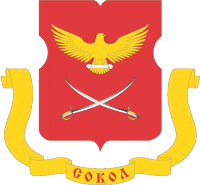 Sokol (rayon of Moscow), coat of arms